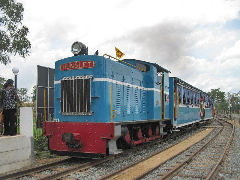 Class P1 narrow gauge diesel mechanical locomotive. This was used in Sri Lanka's KV line before it was converted in to standard gauge.